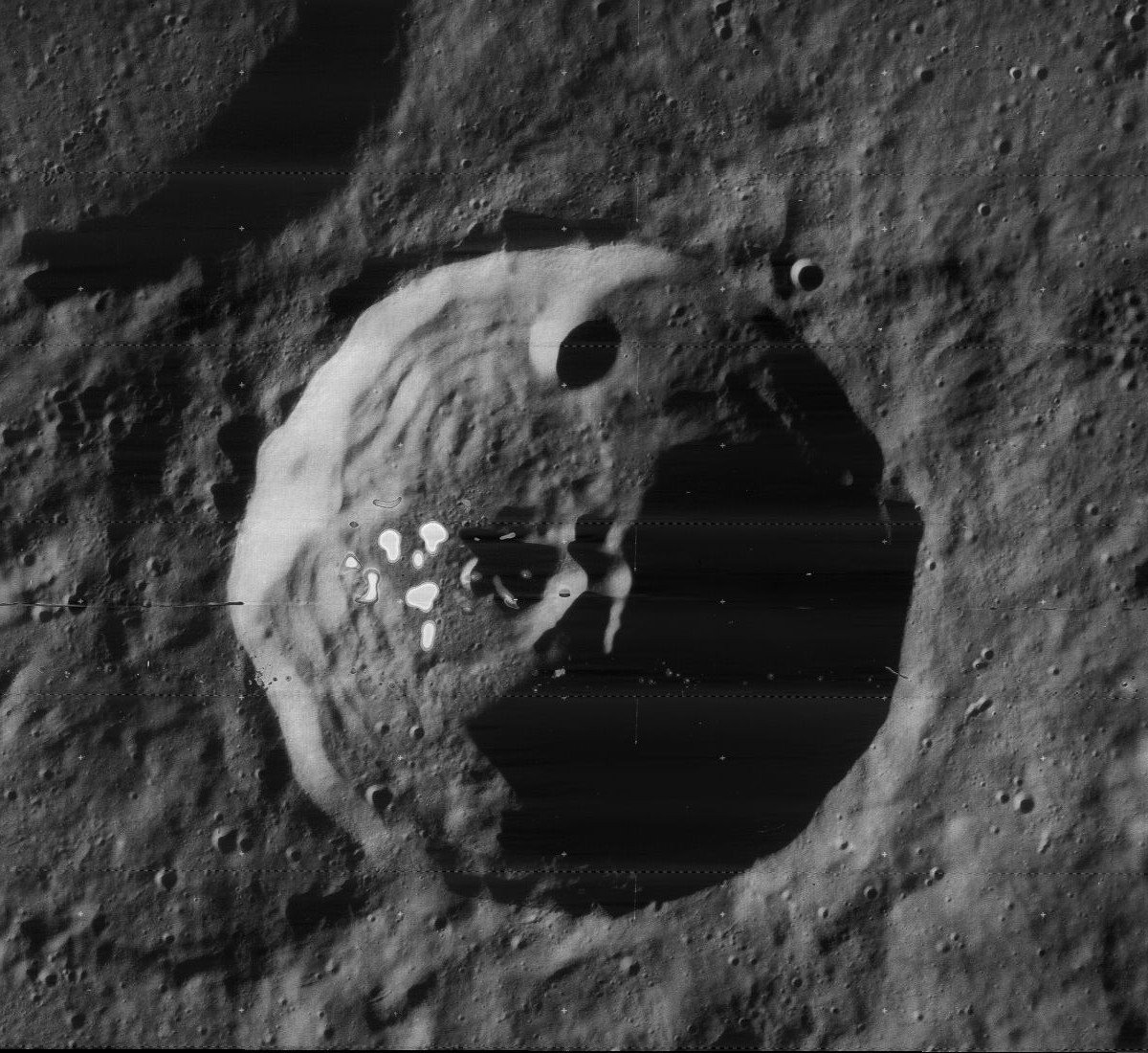 Scoresby, near the north pole of the moon. Cluster of dots near center is blemish on original.